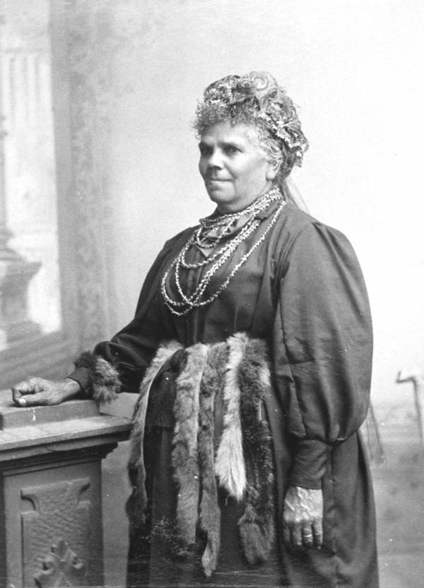 Fanny Cochrane Smith, a Tasmanian Aborigine, wearing a belt with wallaby pelts.